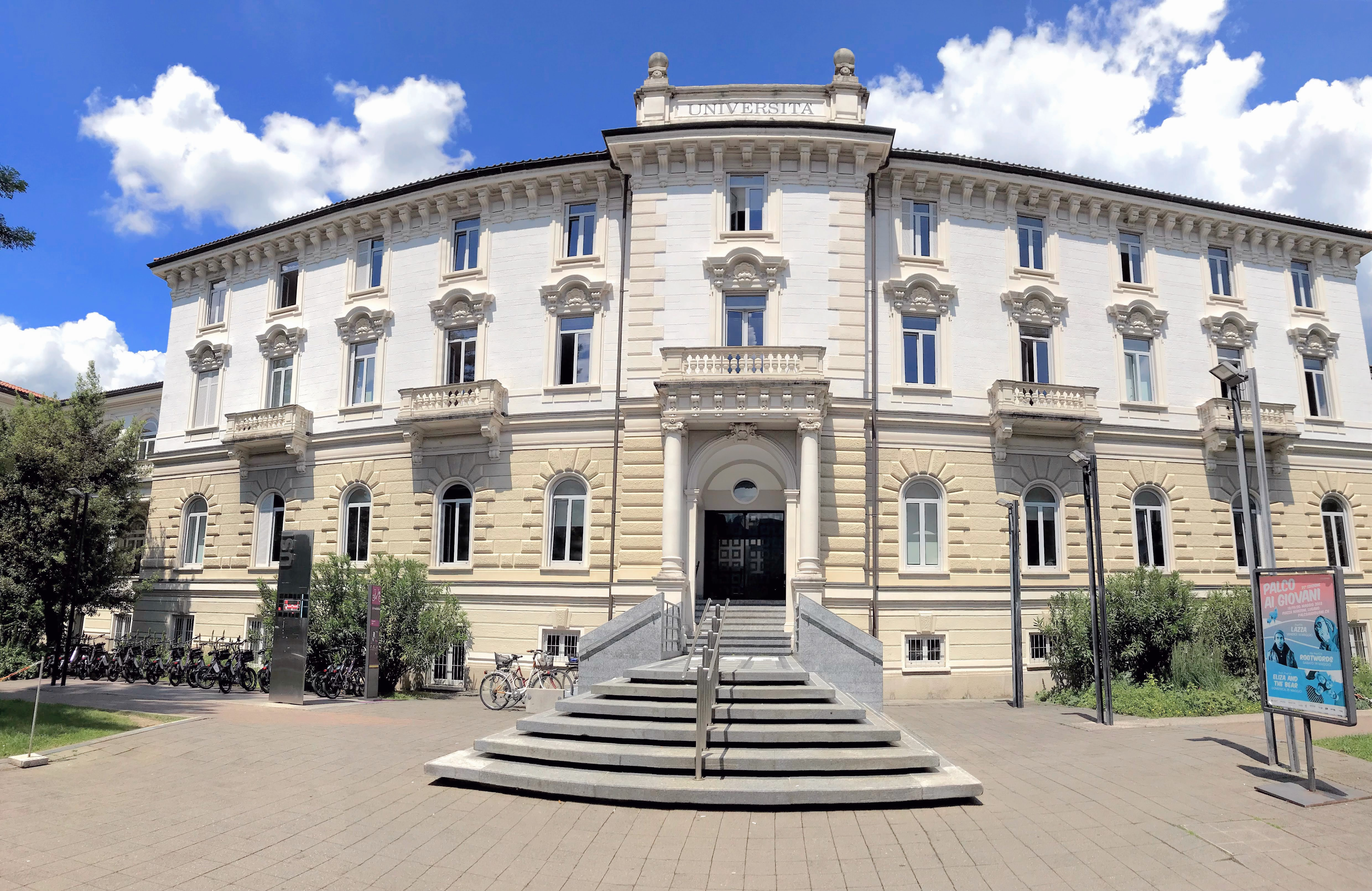 USI Università della Svizzera italiana Lugano